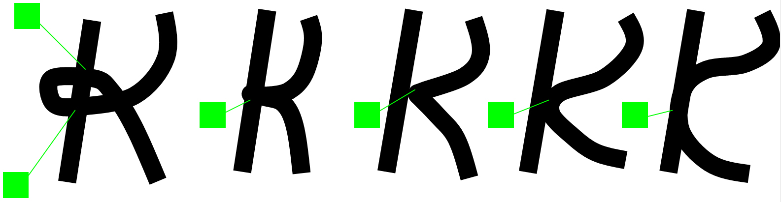 Changements of curve